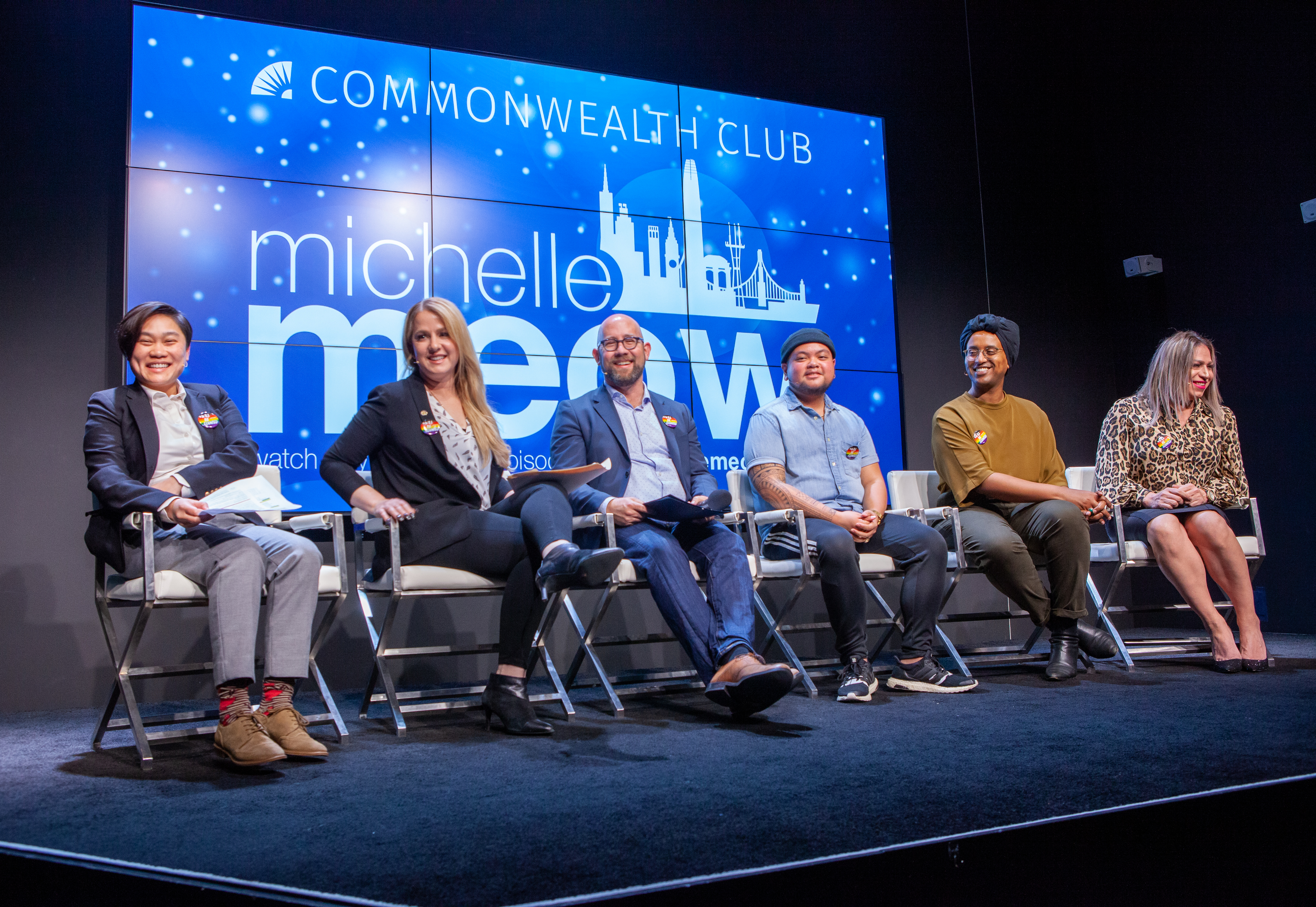 A panel discusses The 2020 Census and the LGBTQ Community on the Michelle Meow Show at the Commonwealth Club, San Francisco. From left to right: Michelle Meow, Clair Farley, Rafael Mandelman, José "Jojo" Ty, Honey Mahogany, and Jessy Ruiz.